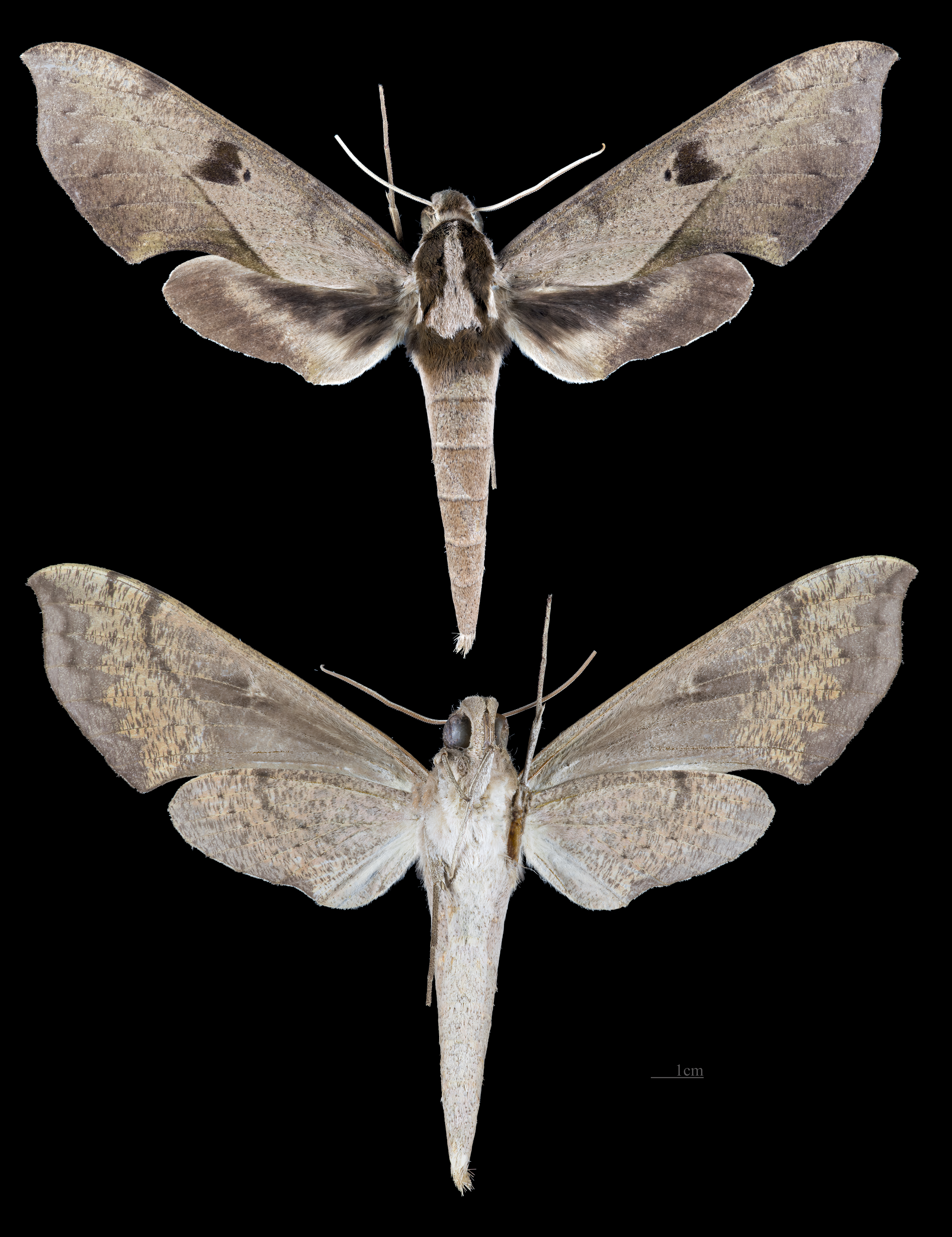 Xylophanes obscurus - Two views of same specimen Collection of the Mathematician Laurent Schwartz